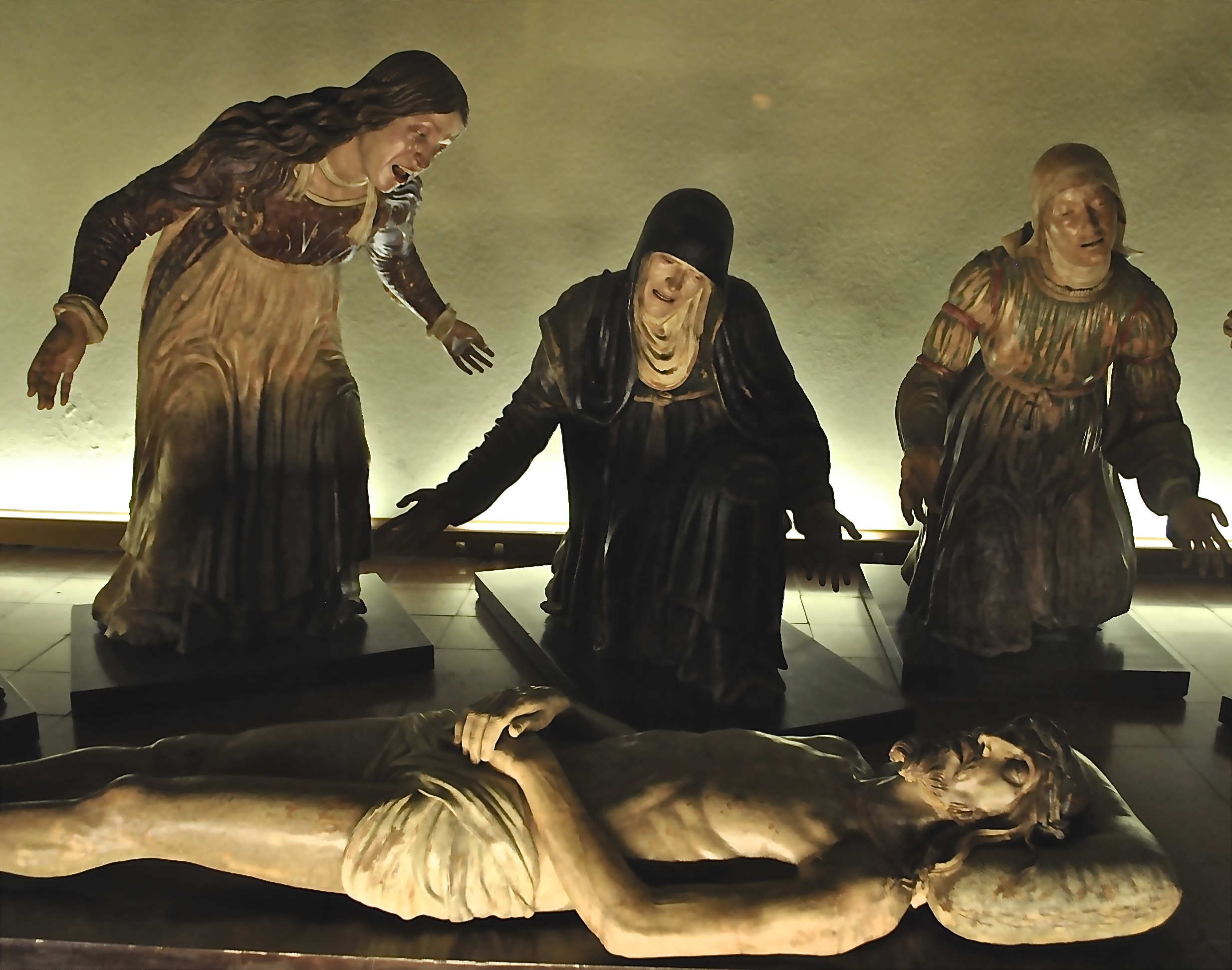 Guido Mazzoni, Lamentation of Christ, detail, (1483-1485 ca.), Church of Gesù, Ferrara, Italy